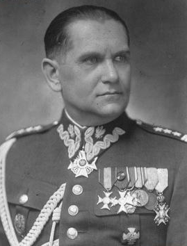 Eugeniusz Chilarski